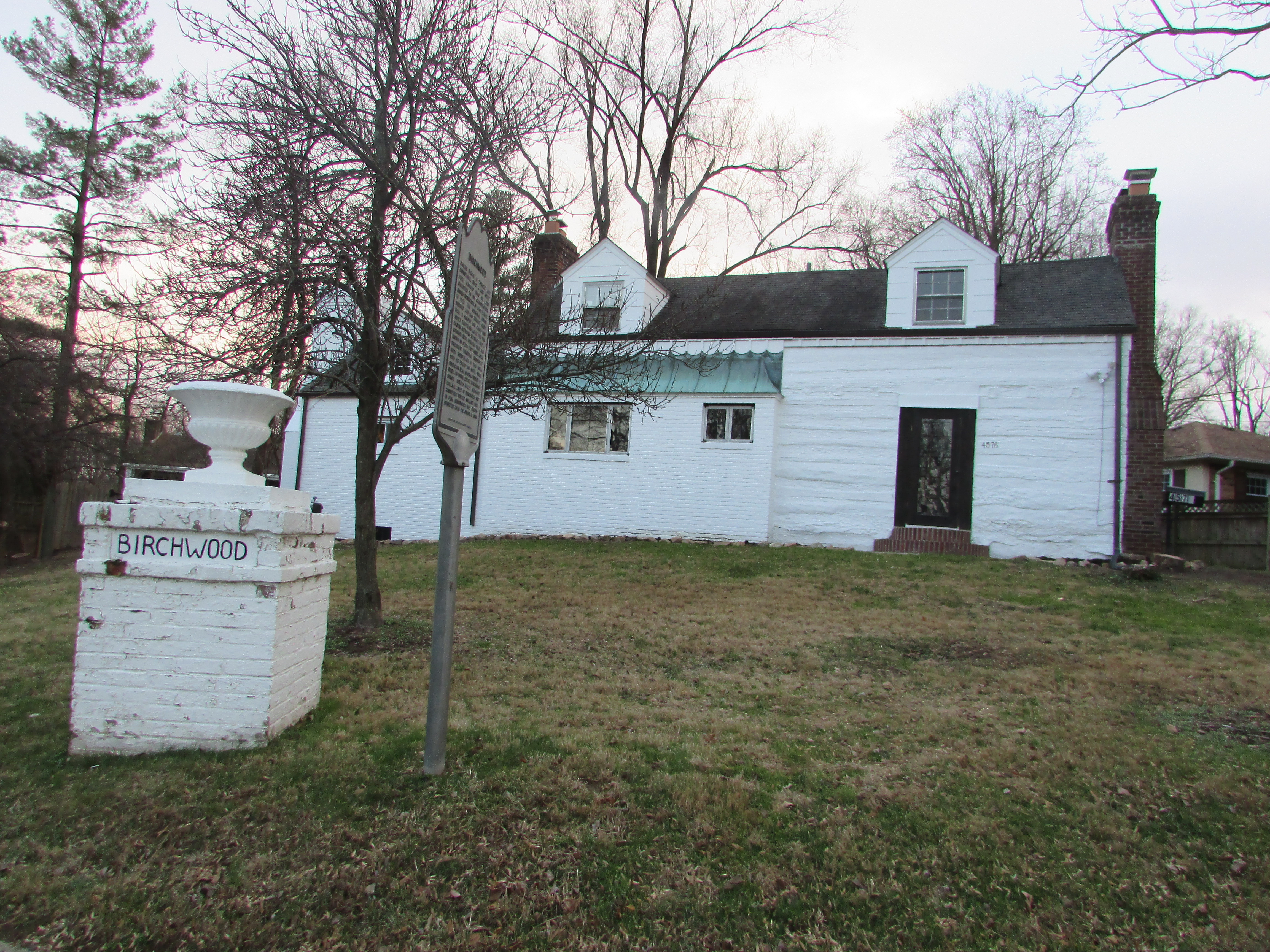 Birchwood historic log house in Arlington County, Virginia, with signs visible.